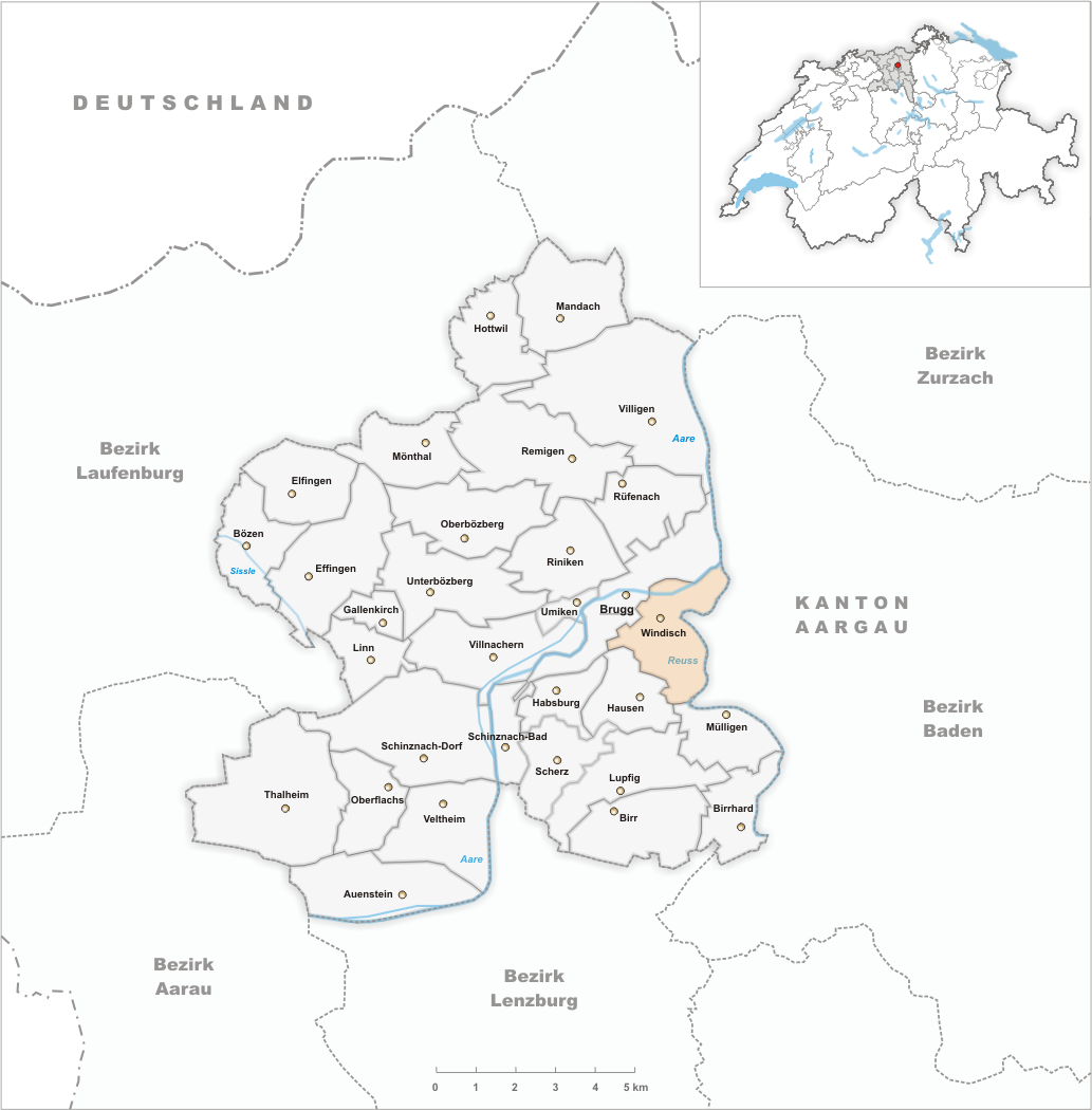 Municipality Windisch